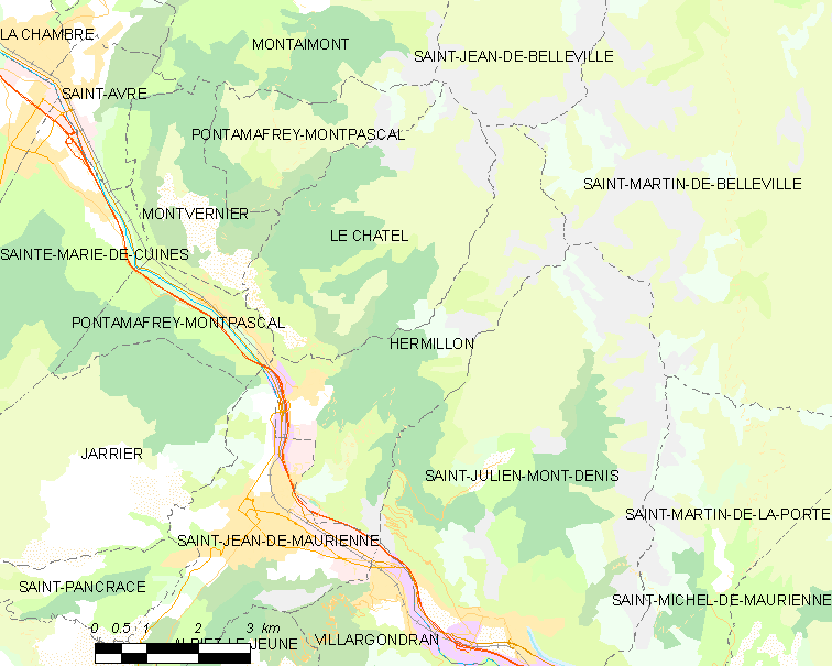 Map of French municipality